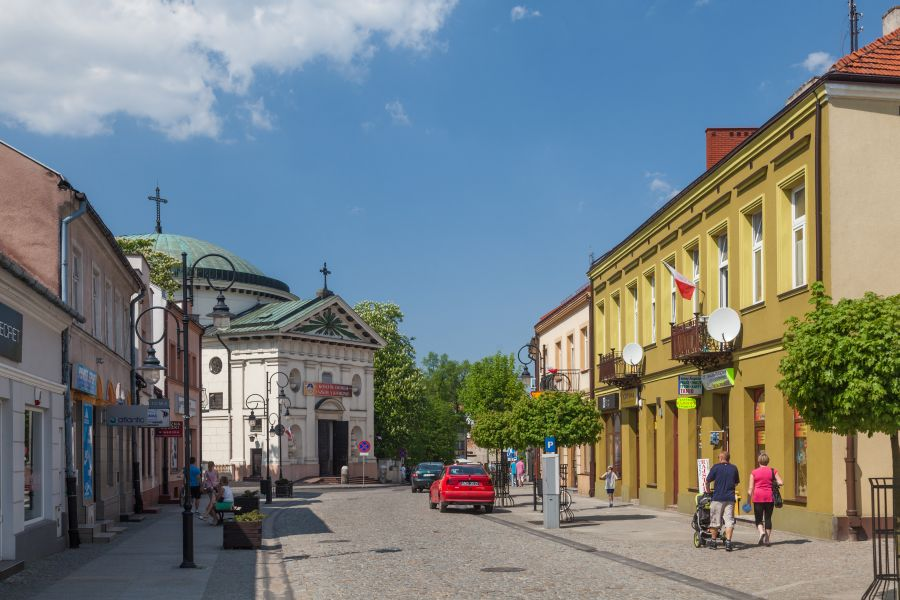 Senatorska St. in Skierniewice, Poland.